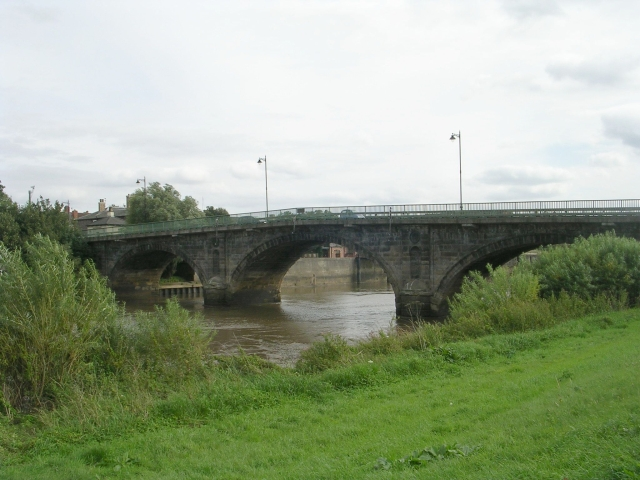 Former Toll Bridge over River Trent